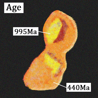 illustration showing age map of monazite grain and zonation pattern. Brighter colour represents older age. Edited after Williams, M. L., Jercinovic, M. J., & Terry, M. P. (1999). Age mapping and dating of monazite on the electron microprobe: Deconvoluting multistage tectonic histories. Geology, 27(11), 1023-1026.